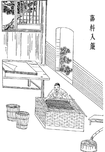 An image of a Ming dynasty woodcut describing five major steps in ancient Chinese papermaking process as outlined by Cai Lun in 105 AD